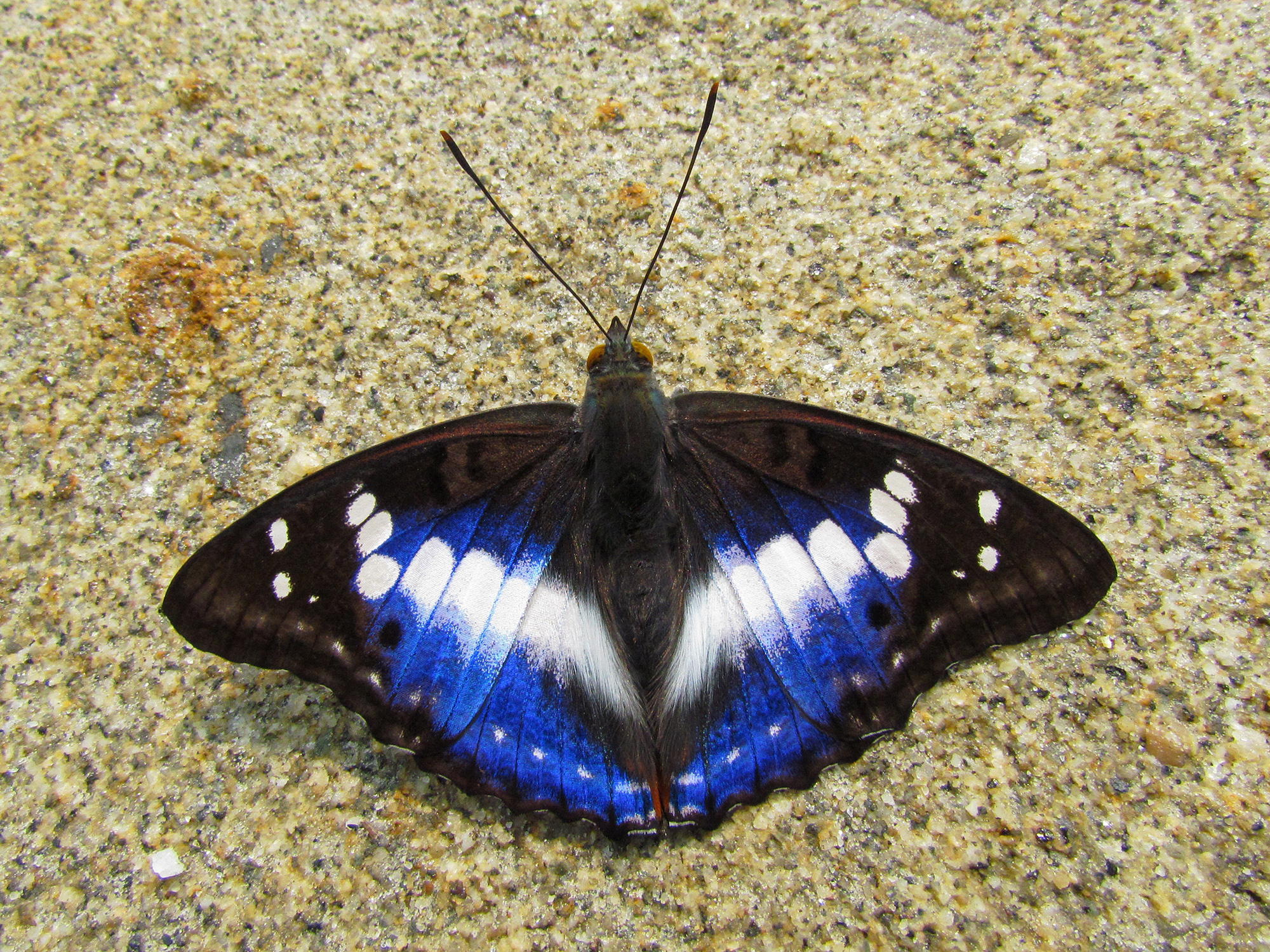 Open wing of Mimathyma ambica Kollar, 1844 – Indian Purple Emperor